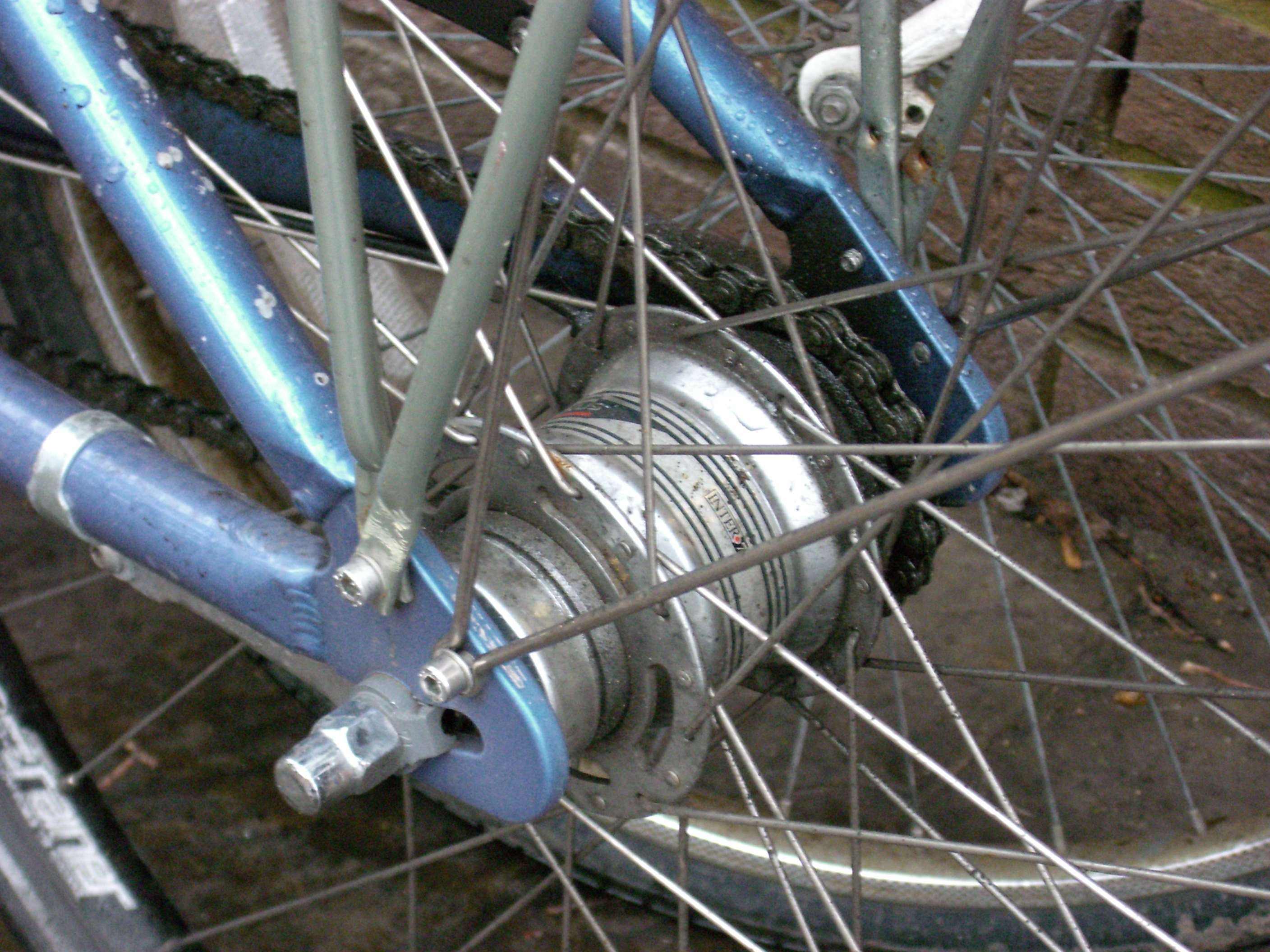 Close-up of a hub gear on a bicycle.